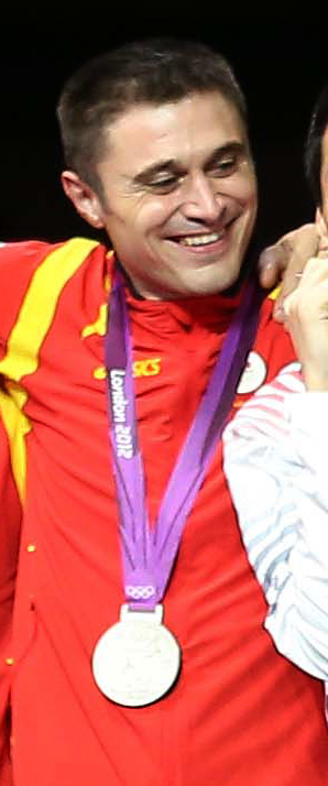 2012 London Olympic Games Korea won the gold medal men's team Saber fenching. Gu Bongil, Kim Junghwan, Won Woo-young and Oh Eunseok 2012. 08. 05. hoto by Korean Olympic Committee Ministry of Culture, Sports and Tourism Korean Culture and Information Service 2012 런던 올림픽 한국 남자 사브르 단체전 금메달 획득 구본길, 김정환, 원우영, 오은석 사진제공 - 대한체육회 문화체육관광부 해외문화홍보원